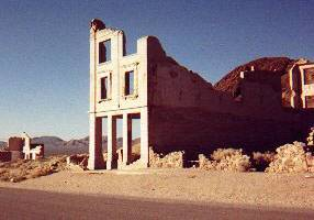 The ruins of the Cook Bank building, in Rhyolite, Nevada, U.S.A. Note: The heavy, decorative framing around the second storey windows was added to the already ruined building as set decoration for a movie which filmed on location there in the 1960s. The window-framing was made of plaster of paris, and was removed in the early 2000s (see more recent photographs of the Cook Bank for comparison).